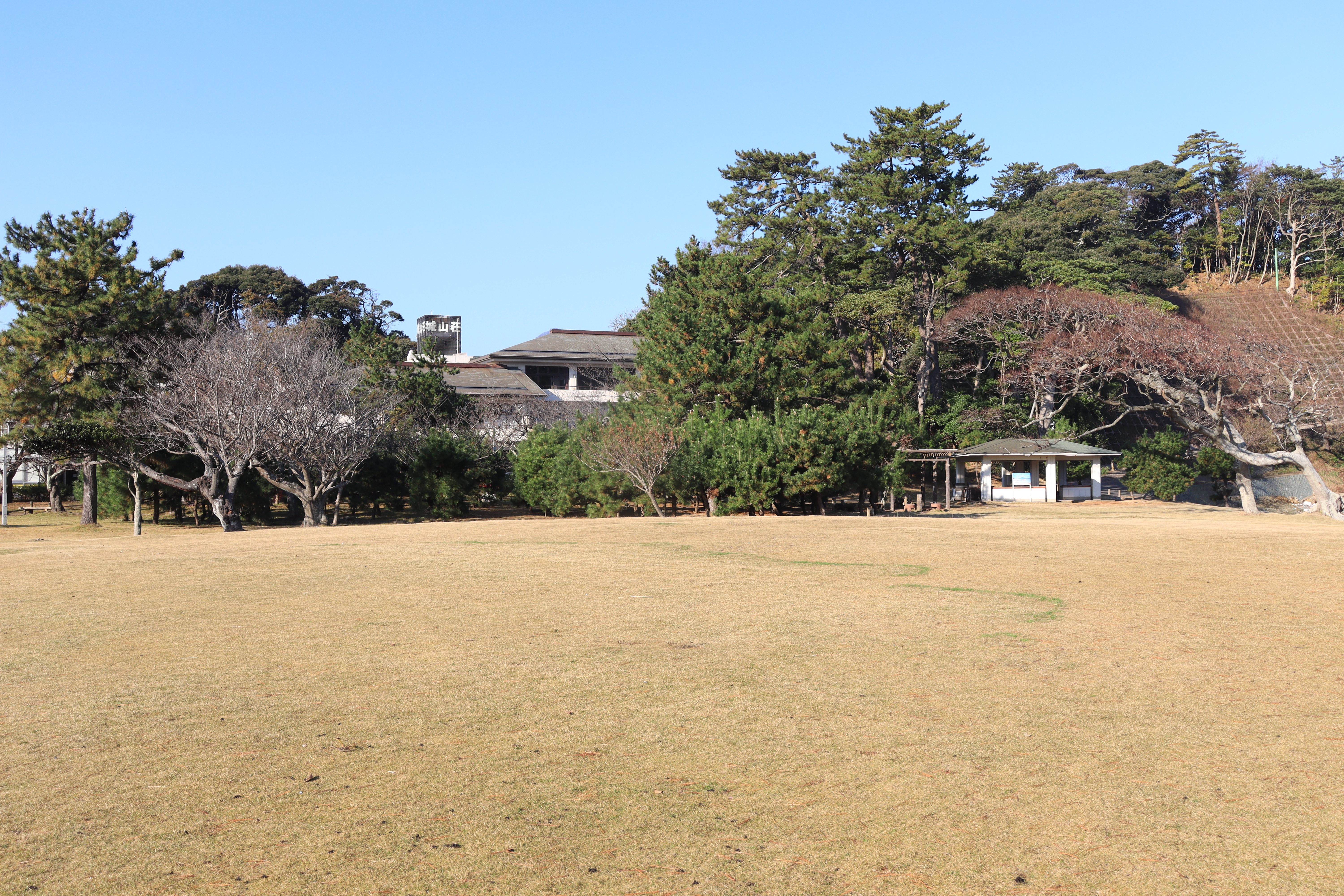 Shiroyama Park in Takahama, Fukui Prefecture, Japan.